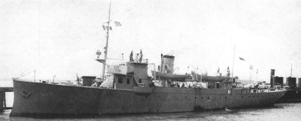 The Cuban Navy gunboat Patria. She was built at Cramp, Philadelphia (USA), in 1911 and served until 1955.